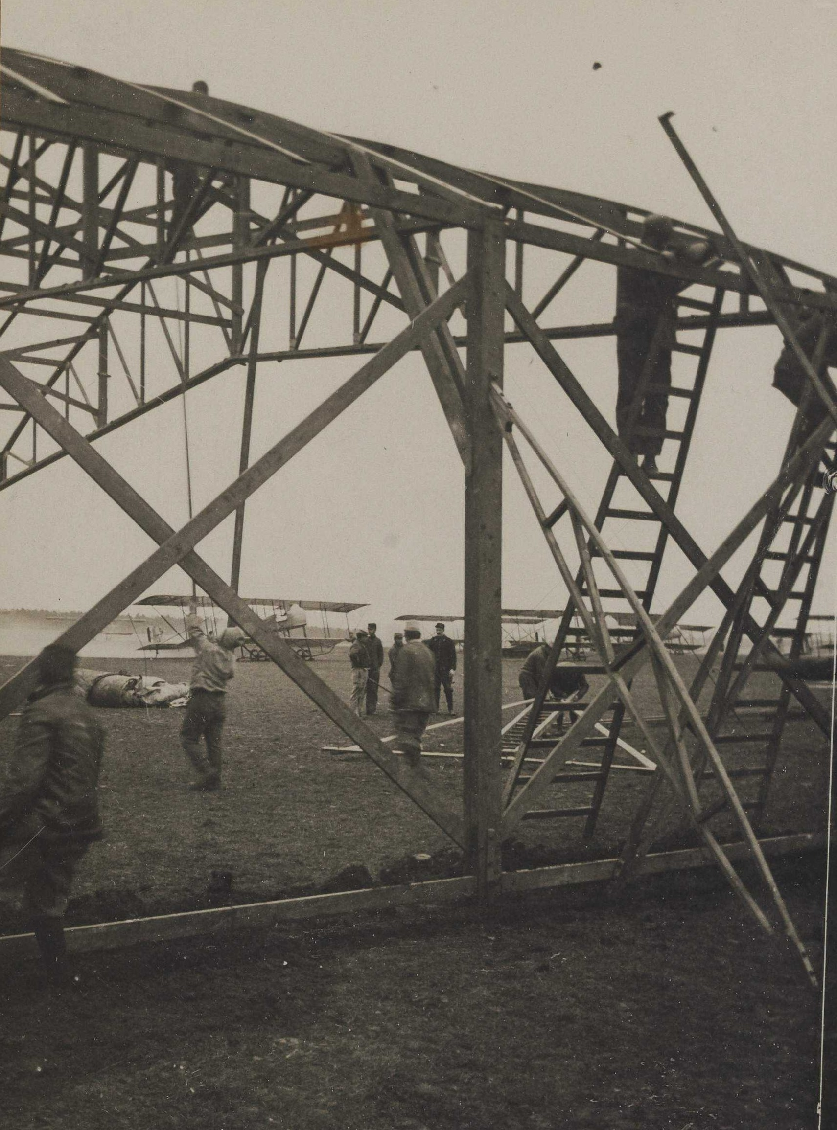 Bessonneau aircraft hangar under construction at Étampes aerodrome with French Farman MF.11s behind